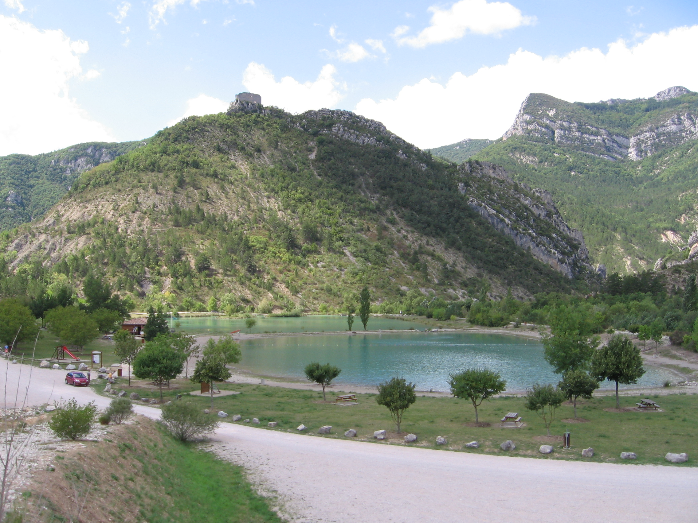 Cornillon-sur-l'Oule, lake, France